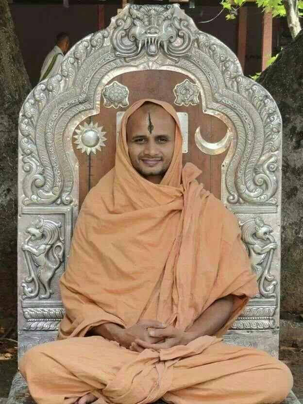 Shree Pic